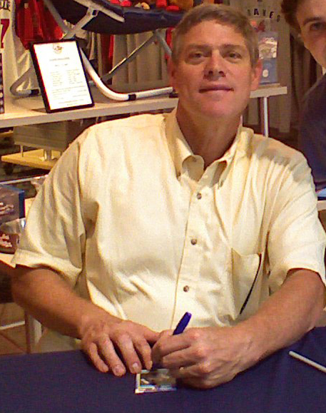 Dale Murphy was at CNN Center doing a book signing. Luckily the line wasn't too long and I got him to sign some other stuff too!